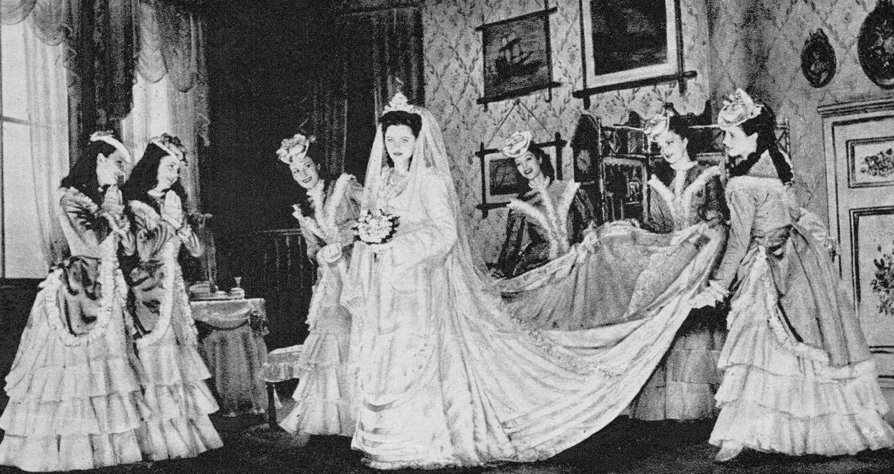 Photo of Lizbeth Webb as Lucy Willow in Act I of the original 1947 production of "Bless the Bride". Lucy is dressed for her wedding, surrounded by her sisters as bridesmaids.